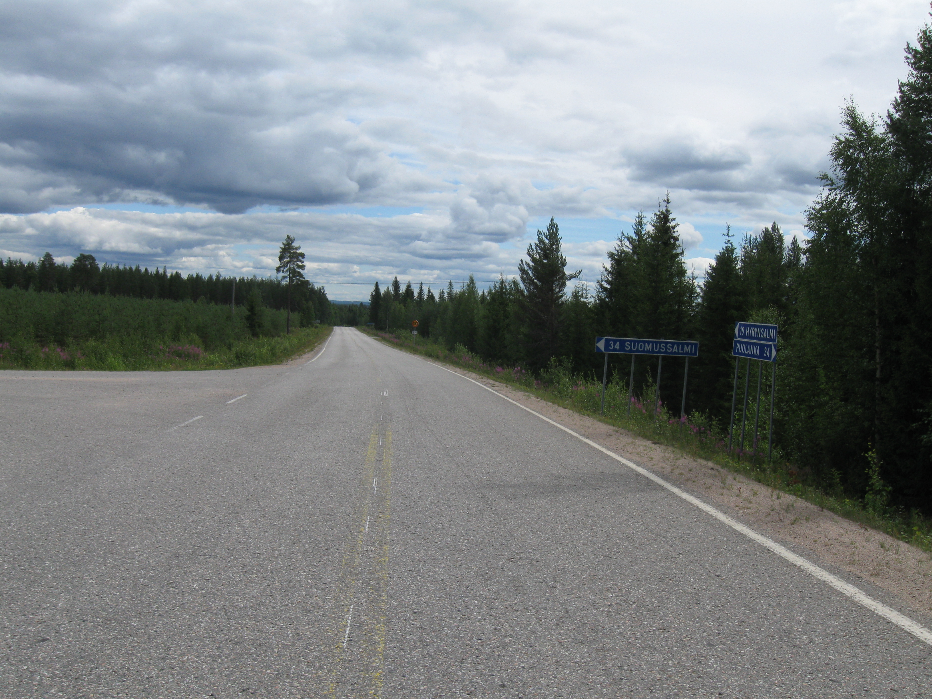 Regional road 891 at Kytömäki, Hyrynsalmi, Finland, at the crossing of regional road 892 towards Hyrynsalmi in South-East.